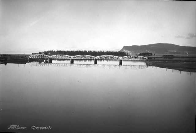 Stjørdalselva Bridge on the Nordland Line in Stjørdal, Norway